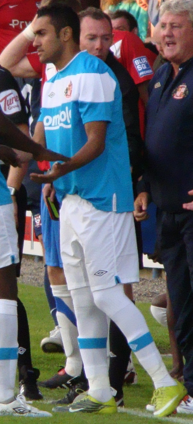 Ahmed Elmohamady, YCFC vs SAFC